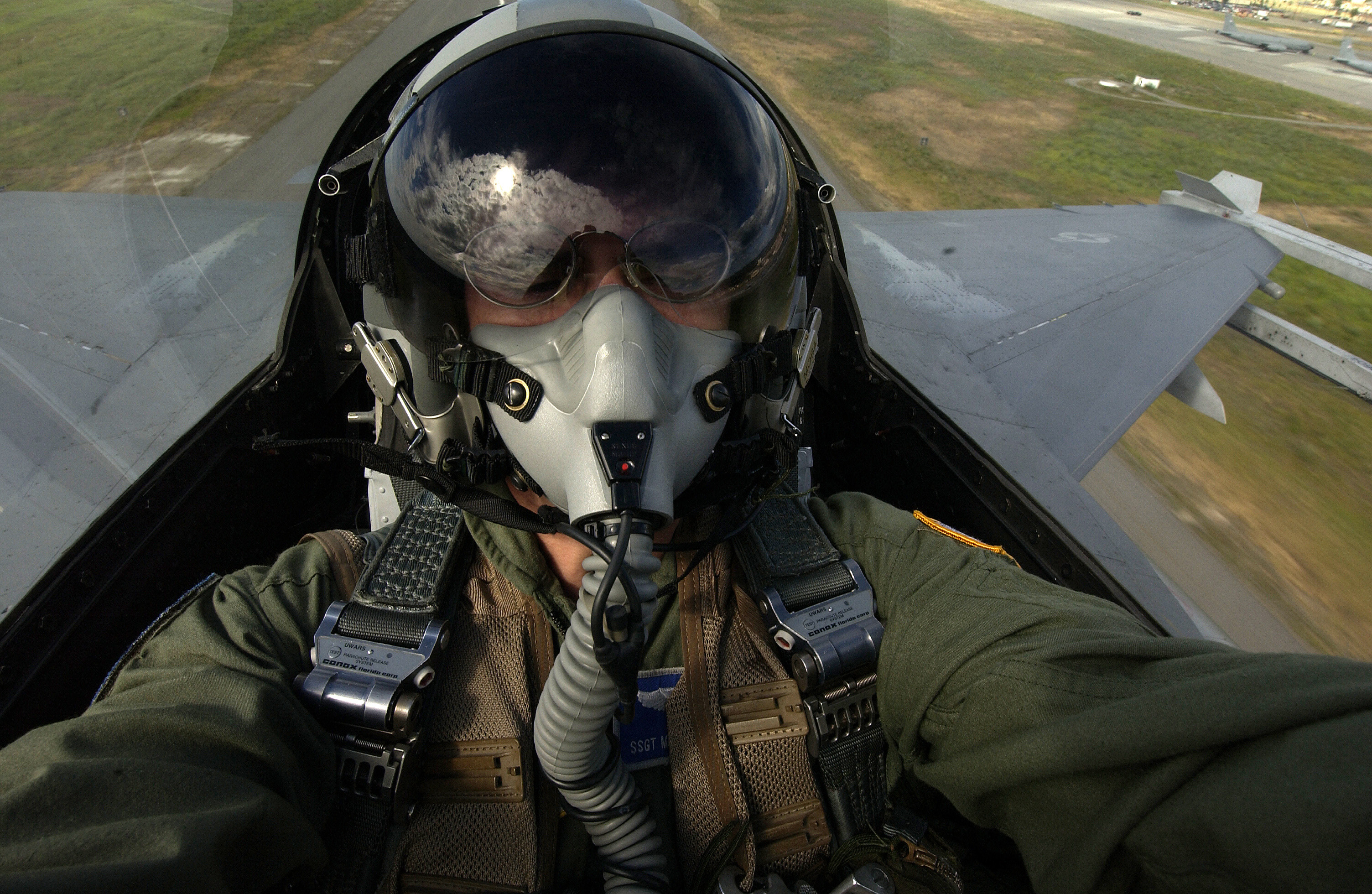 U.S. Air Force Staff Sgt. Matthew Hannen looks for near by aircraft from 45,000 ft up during a training mission over Eielson Air Force Base, Alaska, on July 27, 2004. Hannen is a photographer with the 1st Combat Camera Squadron, Charleston, S.C. DoD photo by Staff Sgt. Matthew Hannen, U.S. Air Force. (Released) 040727-F-9528H-010